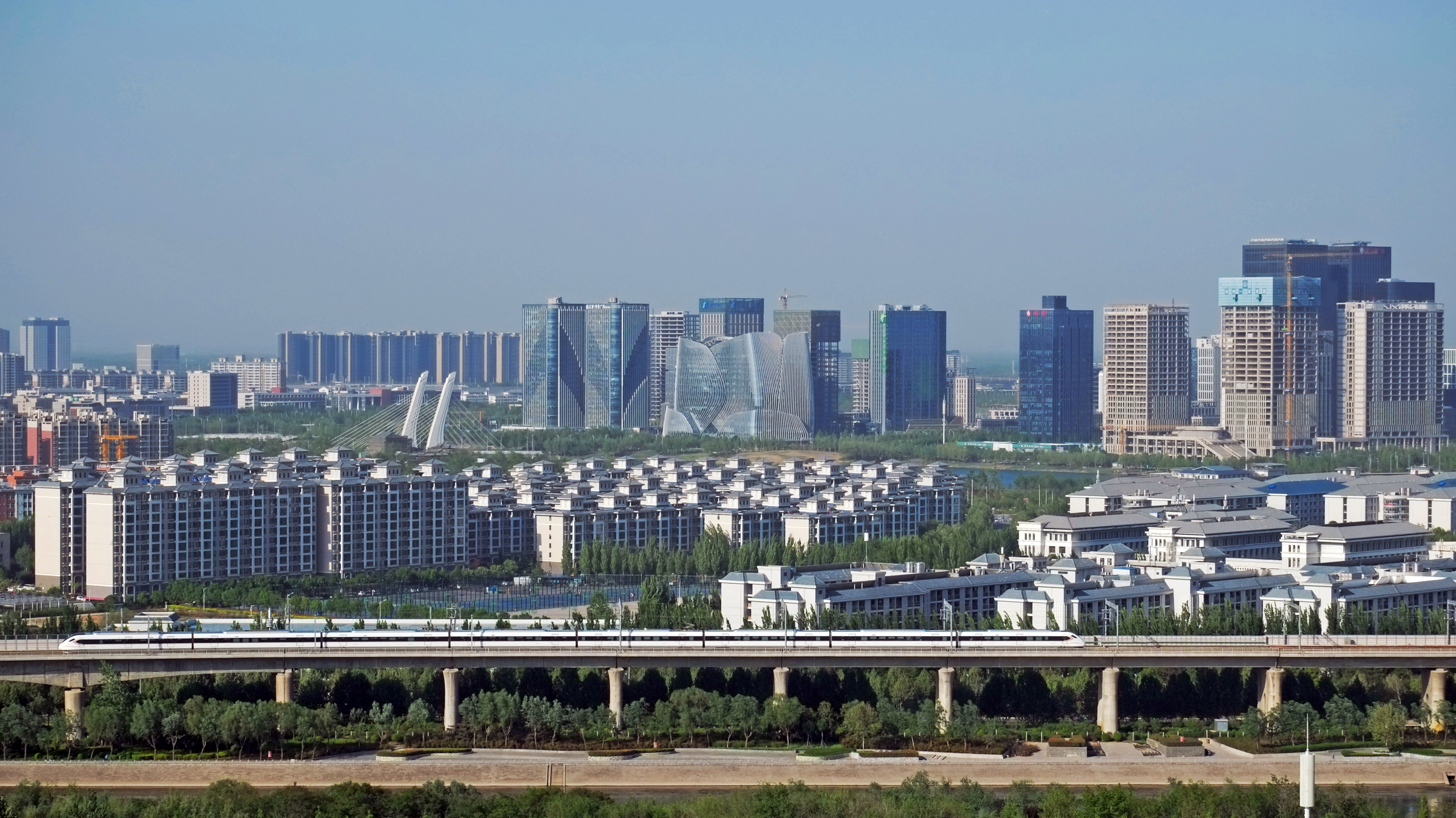 Longzihu area of Zhengdong New Area